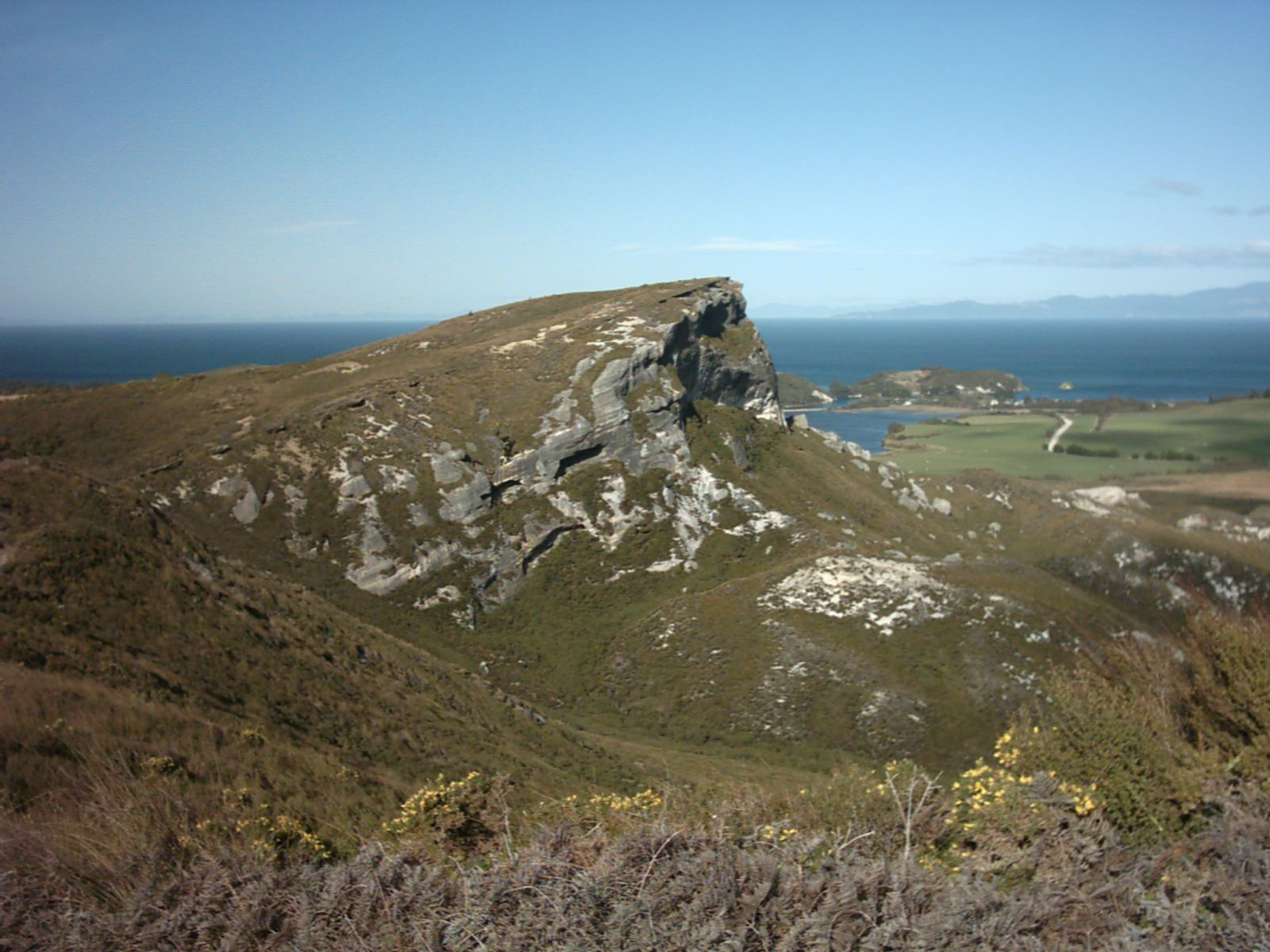 Looking north-east along the clifftop walk, Golden Bay in the right-hand rear, Farewell Spit hidden by the cliff. The cliff in the front is apparently called 'Old Man Range' (or is a part of it).